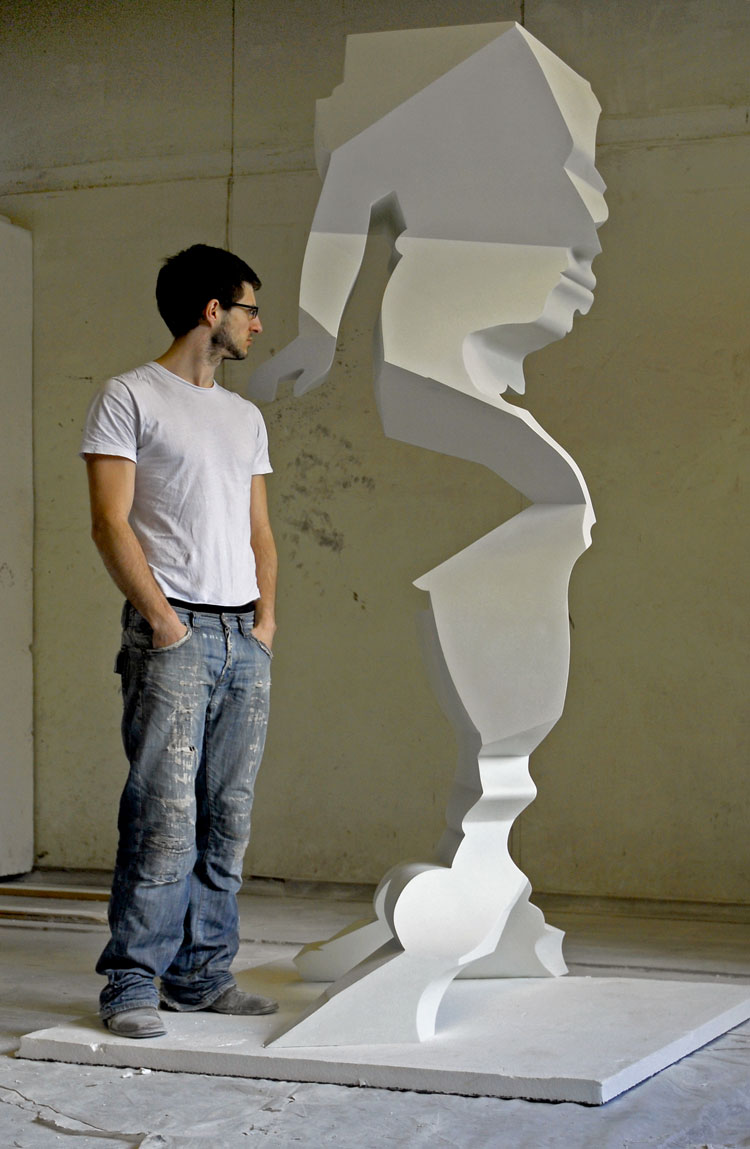 Image of Nick Hornby (Sculptor) in his Studio in London